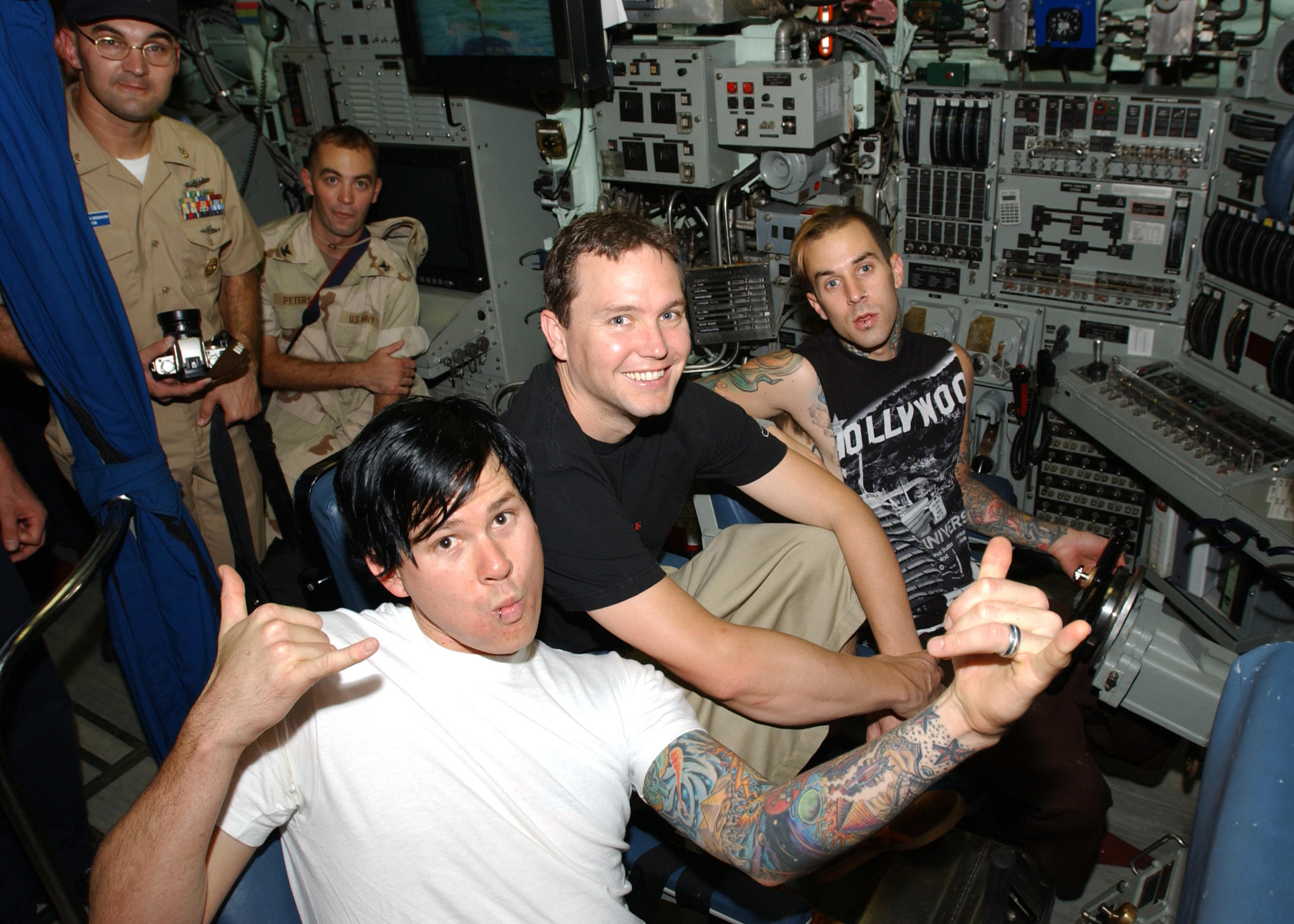 Manama, Bahrain (Aug. 25, 2003) -- Members of the rock band Blink-182 sit at the ship’s controls pier-side aboard the nuclear-powered attack submarine USS Memphis (SSN 691). Morale Welfare and Recreation, Naval Personnel Command Millington, Tenn. and MWR, NSA Bahrain brought Blink-182 to Bahrain to perform for Sailors, Marines and their families. U.S. Navy photo by Journalist 2nd Class Denny Lester. (RELEASED)